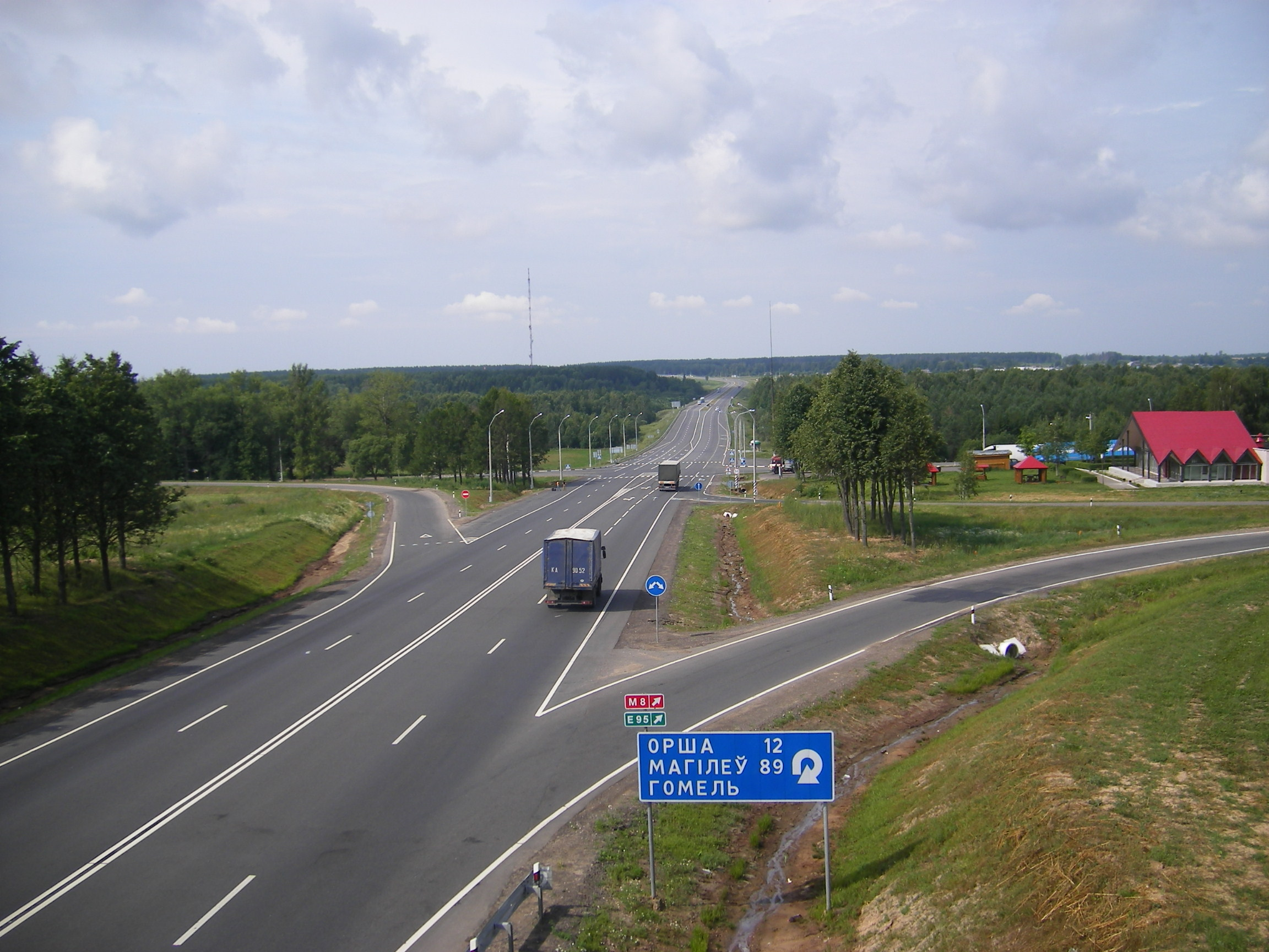 M1 autoroute near Orsha, Belarus